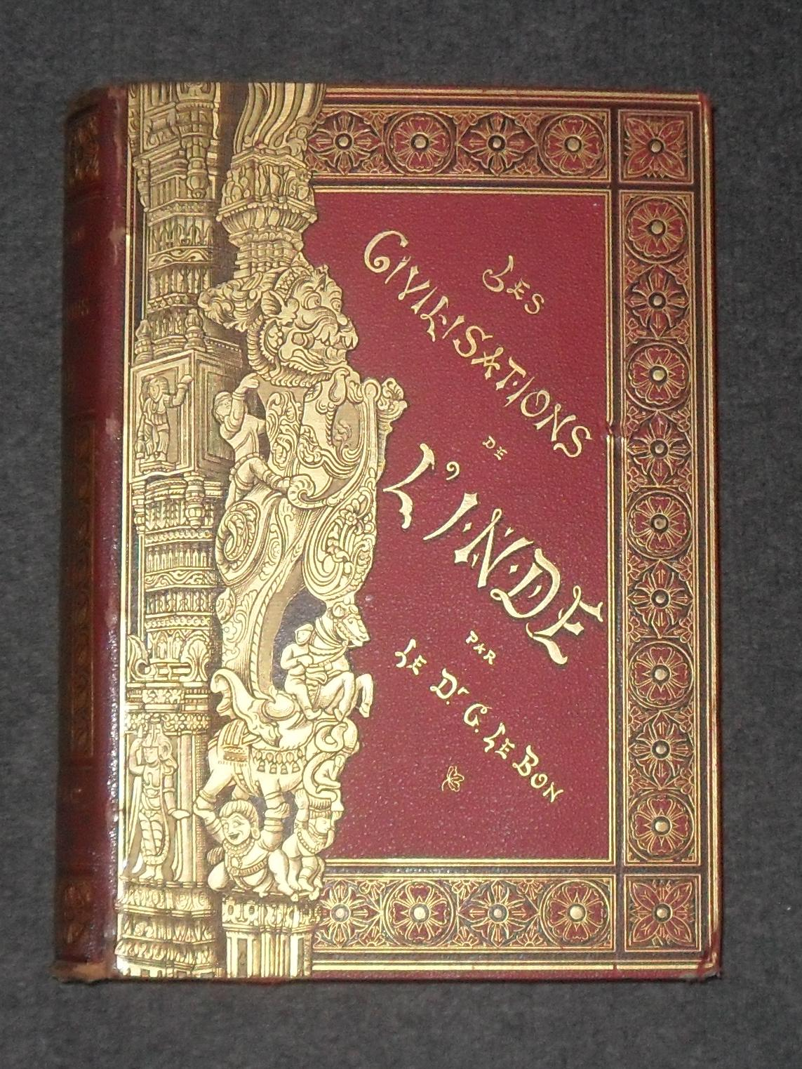 Les civilisations de l'Inde [book] / Gustave Le Bon. -- Paris : Firmin-Didot, 1887. 743 p.